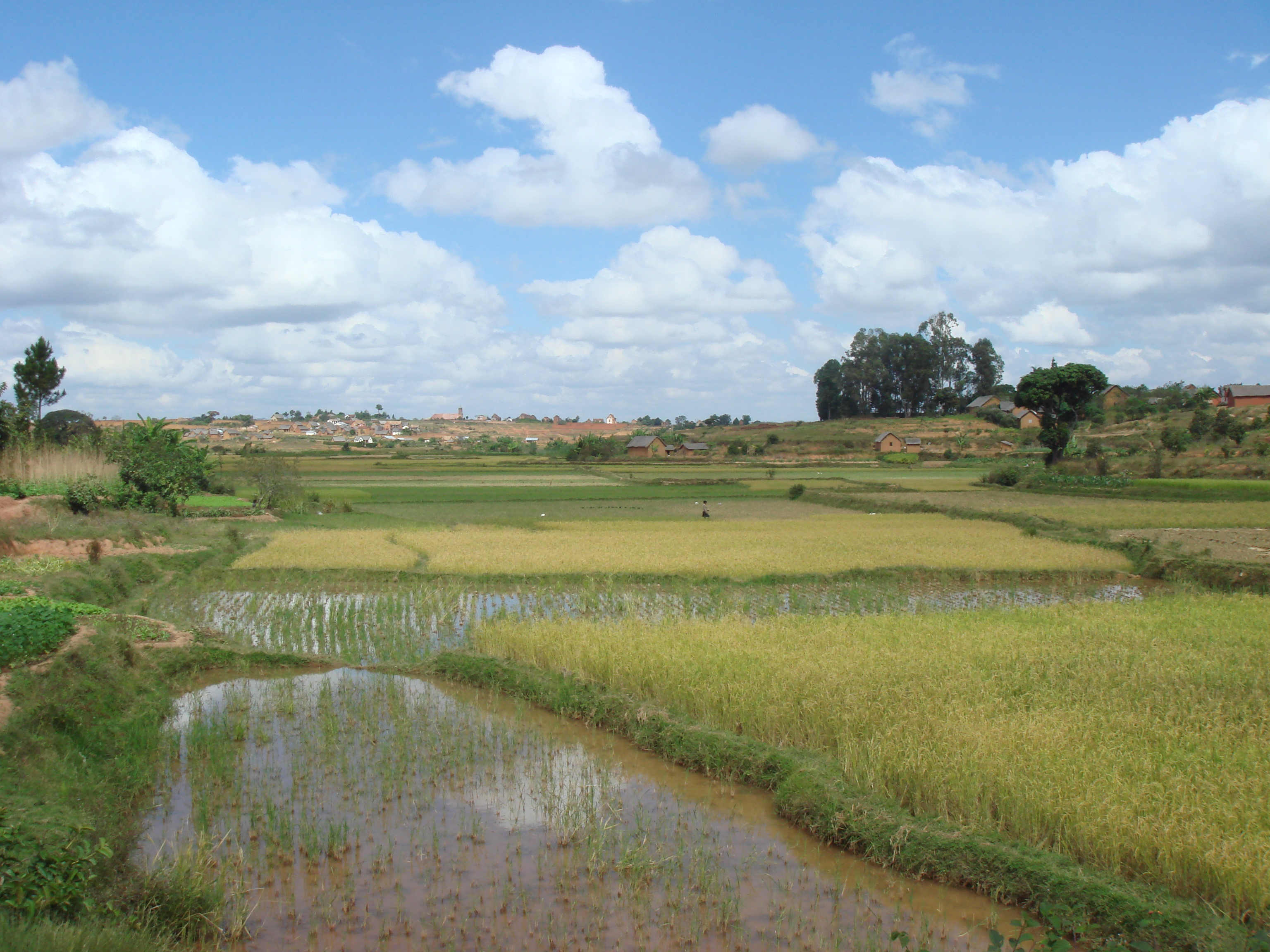 Typical countryside on the road to Ambohimanga.